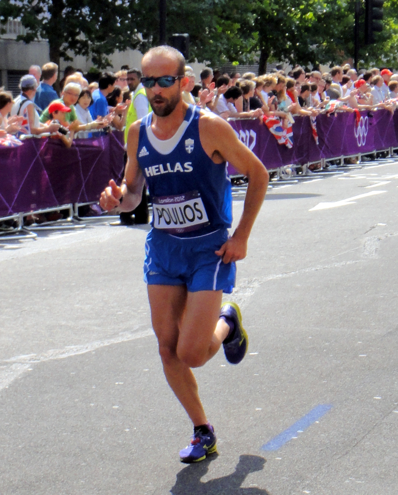 Konstadinos Poulios (Greece) - London 2012 Men's Marathon